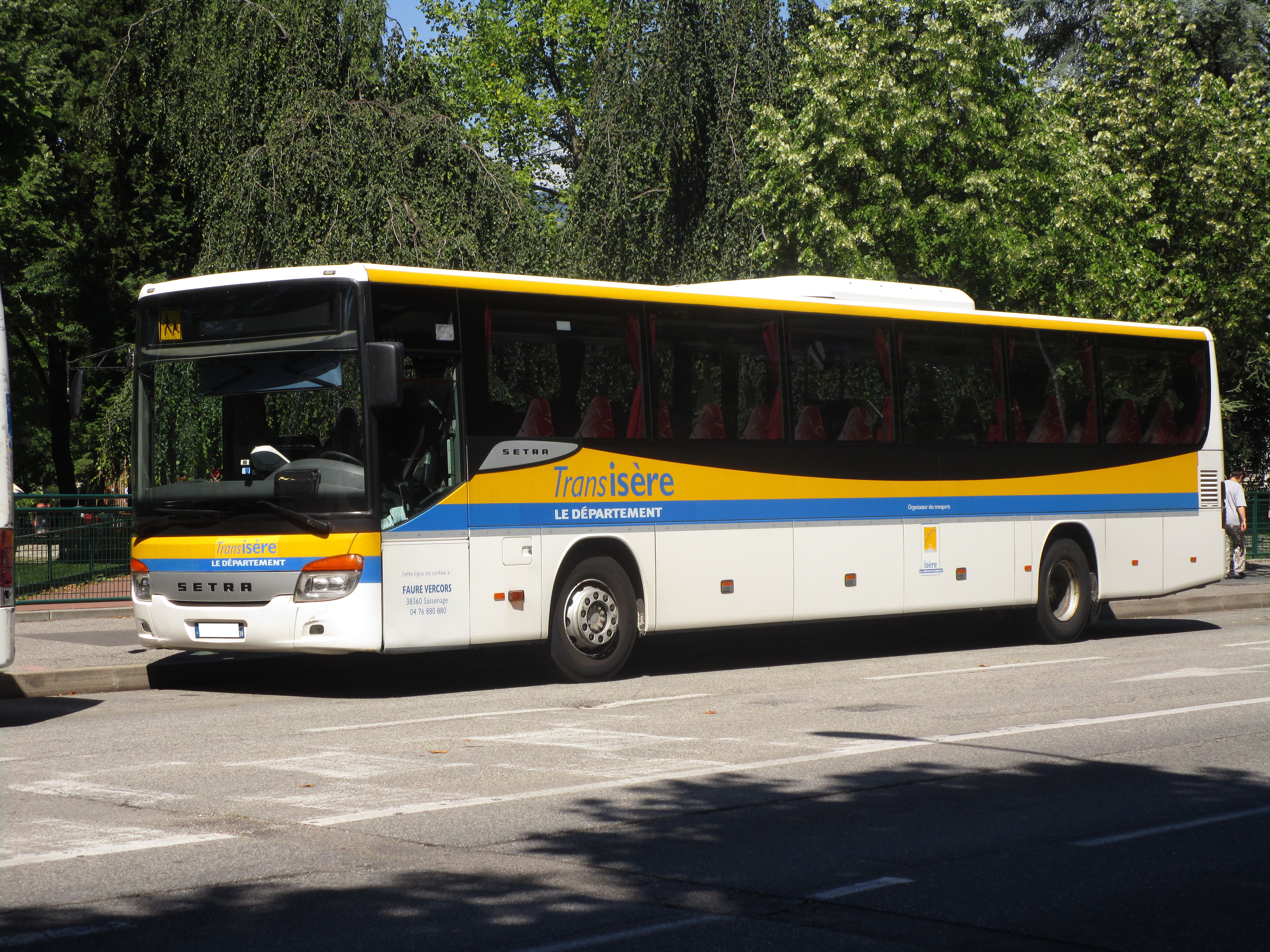 A Setra S 416 UL (Faure Vercors) in the Quai du Jeu de Paume (Chambéry, France) on July 6, 2017.